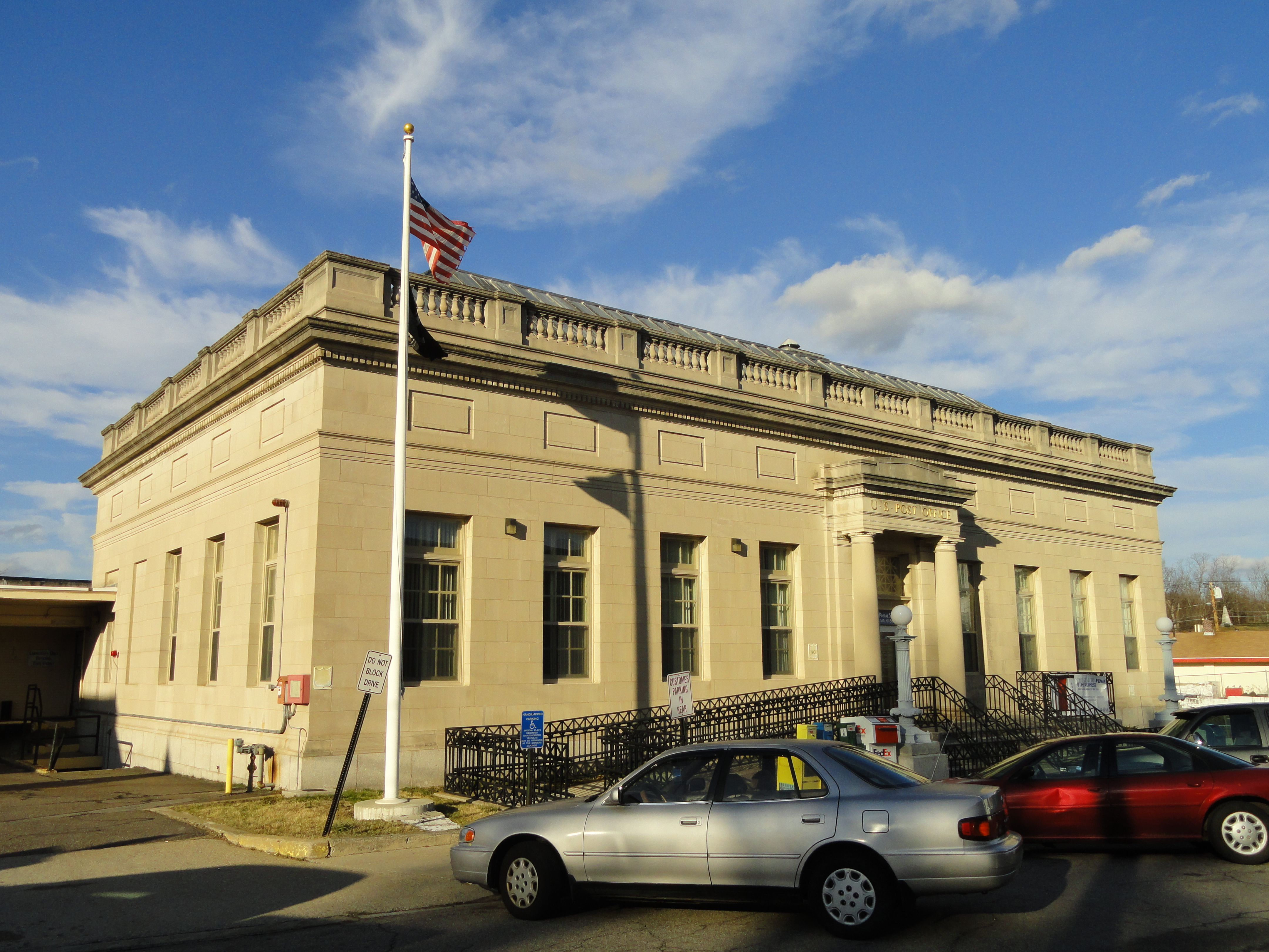 United States Post Office, Woburn, Massachusetts, USA.